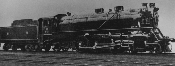 Steam locomotive number 501 of the Longhai Railway (later China Railways class SL13)